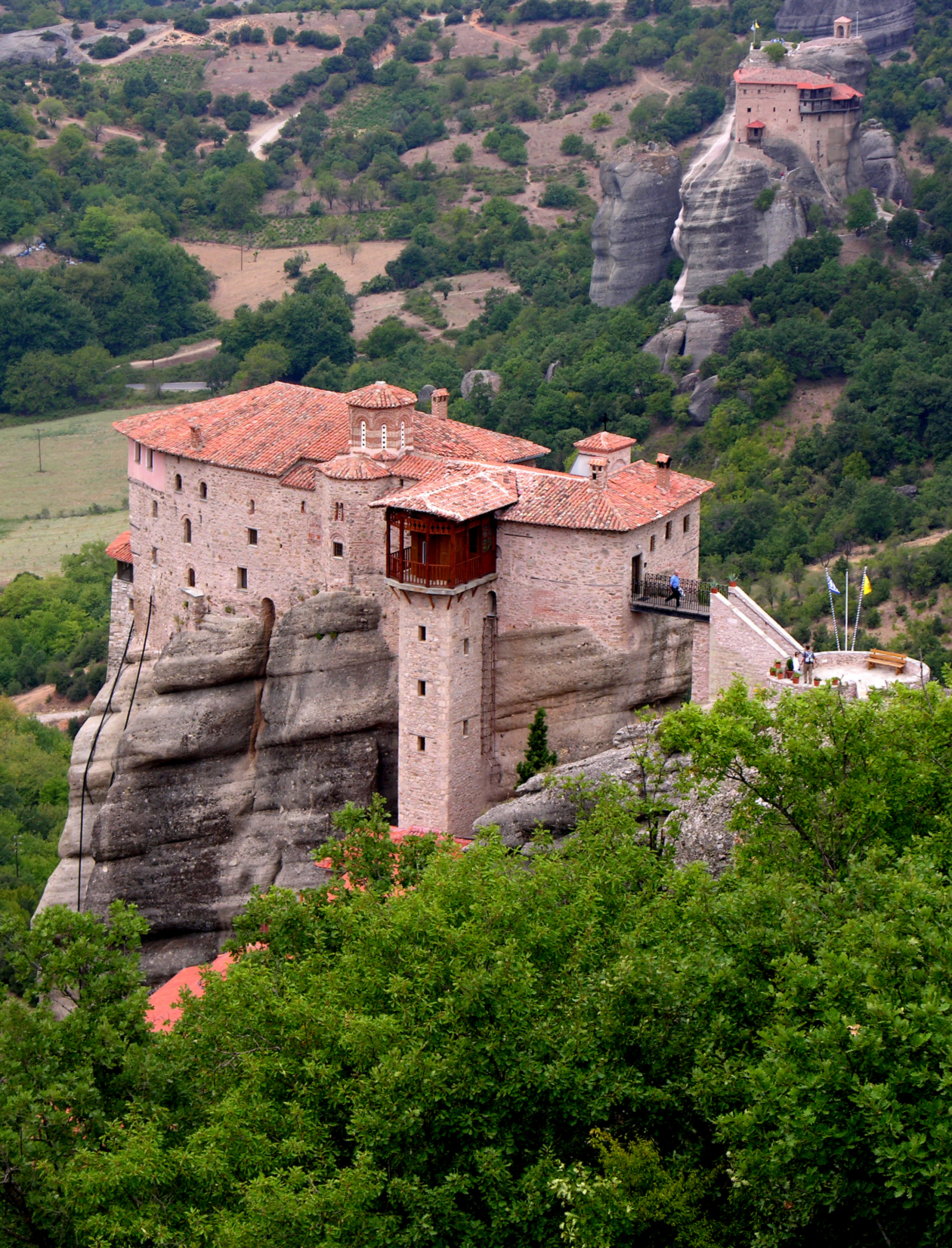 Holy Monastery of Rousanou, Kalambaka, Greece